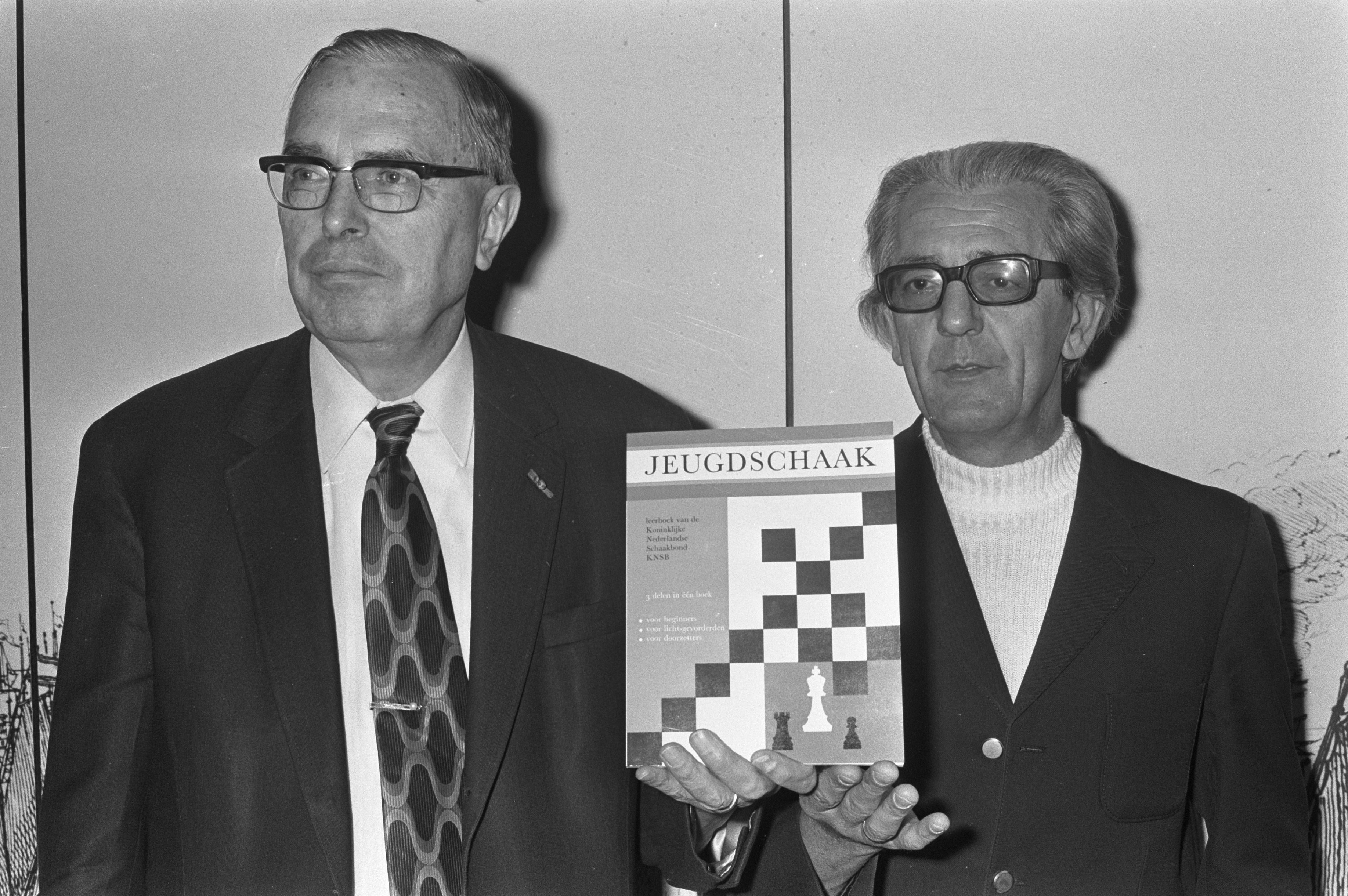 Max Euwe and B. J. Withuis (right) present the book Jeugdschaak (Chess for the Young), ISBN 9061040388